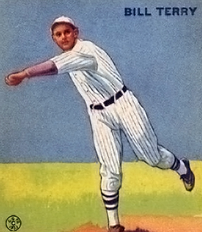 1933 Goudey baseball card of Bill Terry of the New York Giants #20. PD-not renewed.